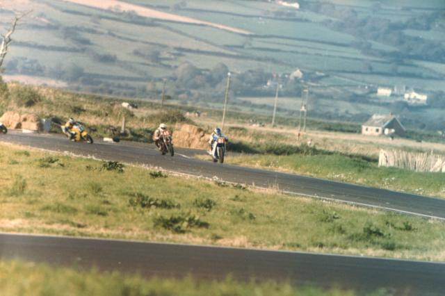 Pembrey Road Racing. Road Racing at Pembreys Motor Sports Centre